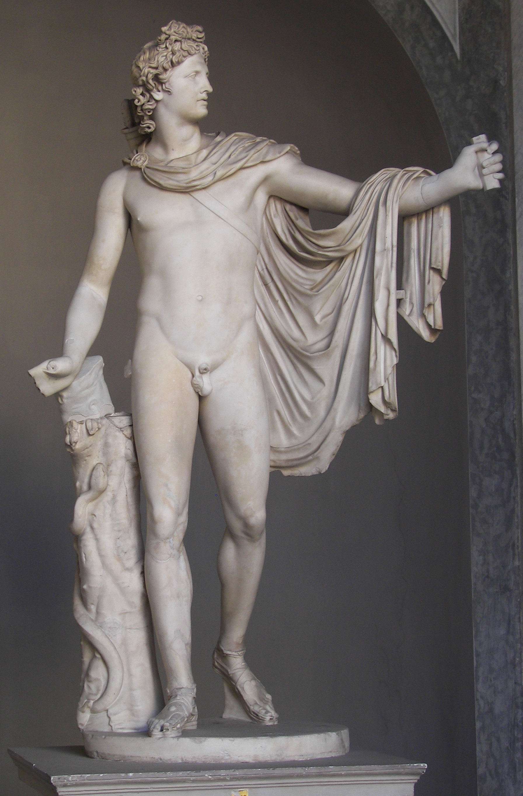 Roman copy after a Greek bronze original of 330–320 BC. attributed to Leochares. Found in the late 15th century.